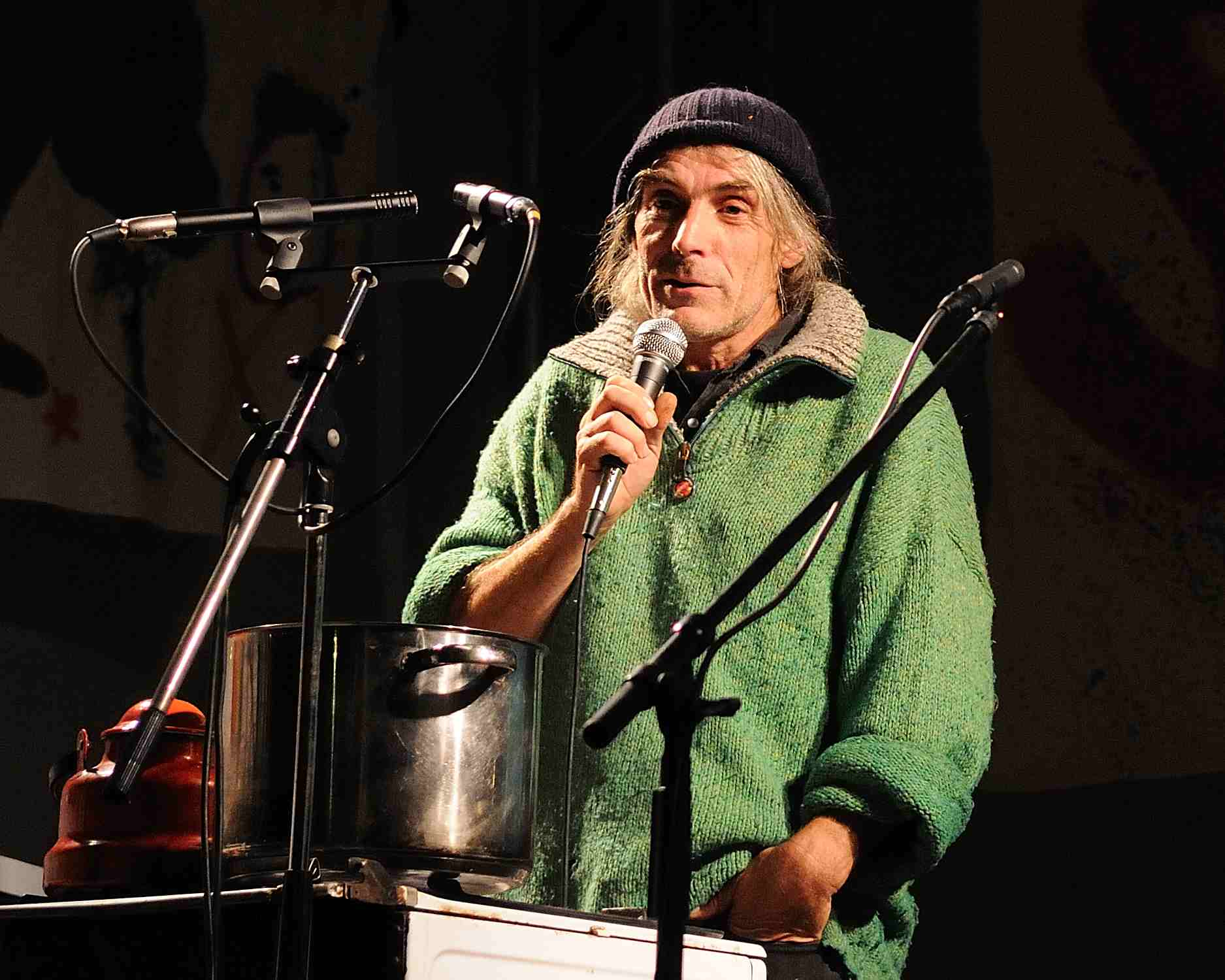 Dutch activist and cook Wam Kat on stage during the event "Wendland Reloaded" in Hannover, Germany, on September 23, 2010.